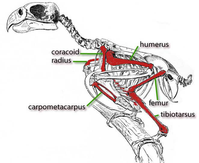 Skeleton of a parrot with bones excavated for the Saint Croix Macaw colored red. Known bones listed in:[1]